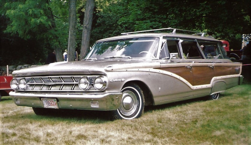 1963 Mercury Colony Park station wagon I photographed at Codman Estate in Lincoln, Massachusetts in July 2006.